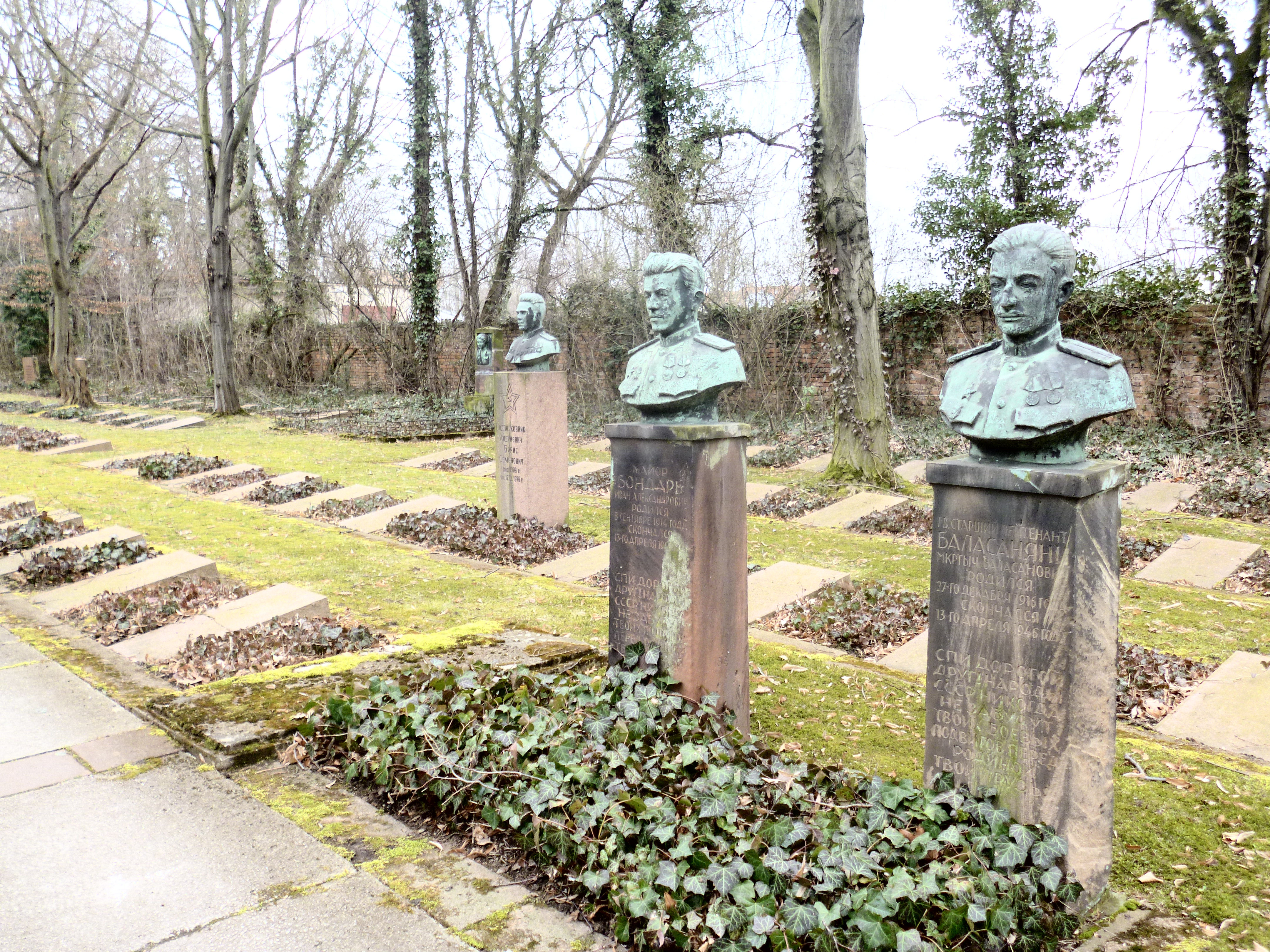 Burial area for members of the Red Army and their family members, cemetery Südfriedhof, Halle (Saale)